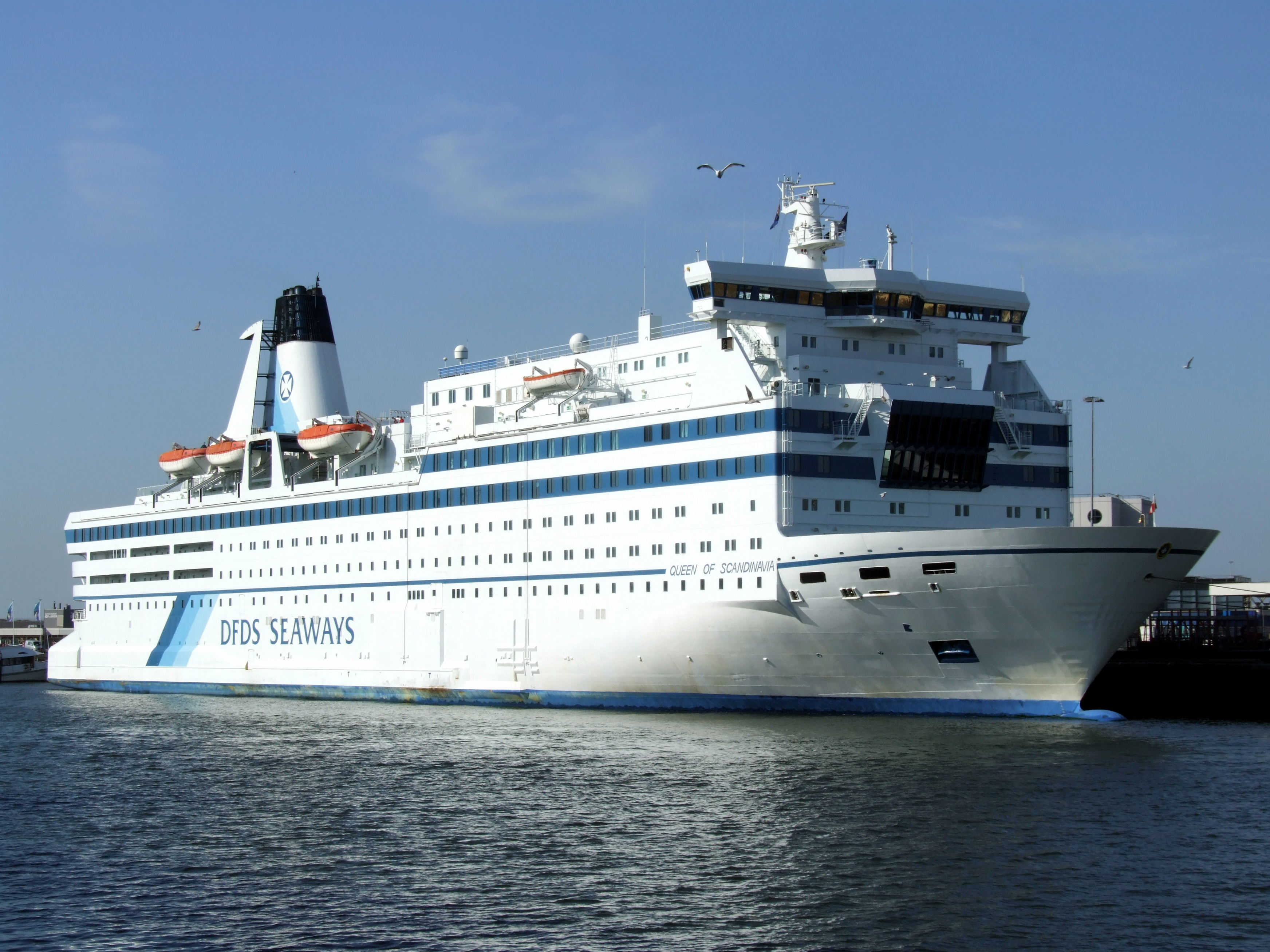 Queen of Scandinavia - IMO 7911533 IJmuiden